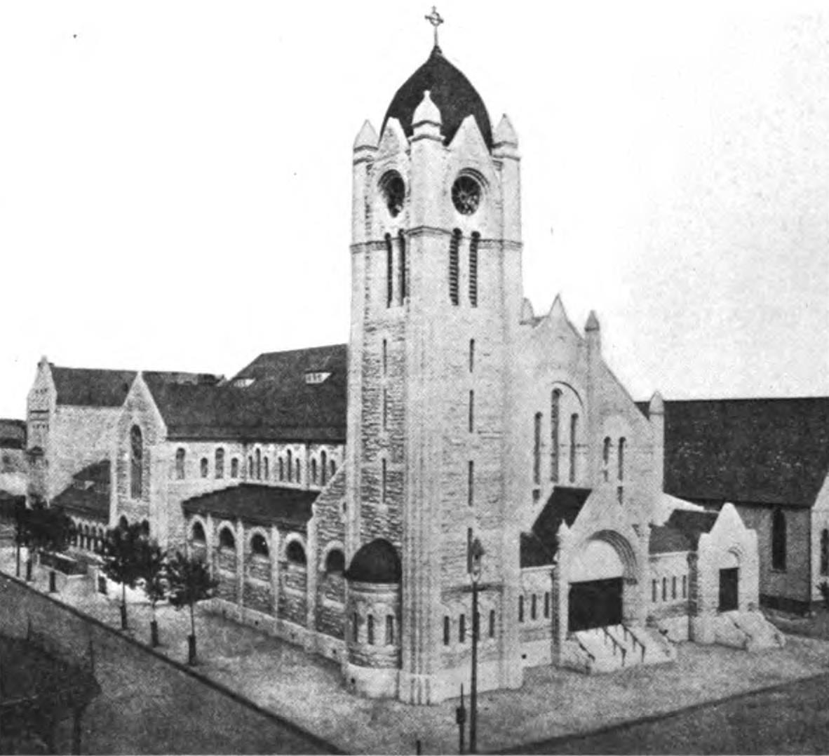 An image of Saint Cecilia's taken from a 1914 publication entitled "The Catholic Church in the United States of America: Undertaken to Celebrate the Golden Jubilee of His Holiness, Pope Pius X, Volume 3." The image can be found on page 544.